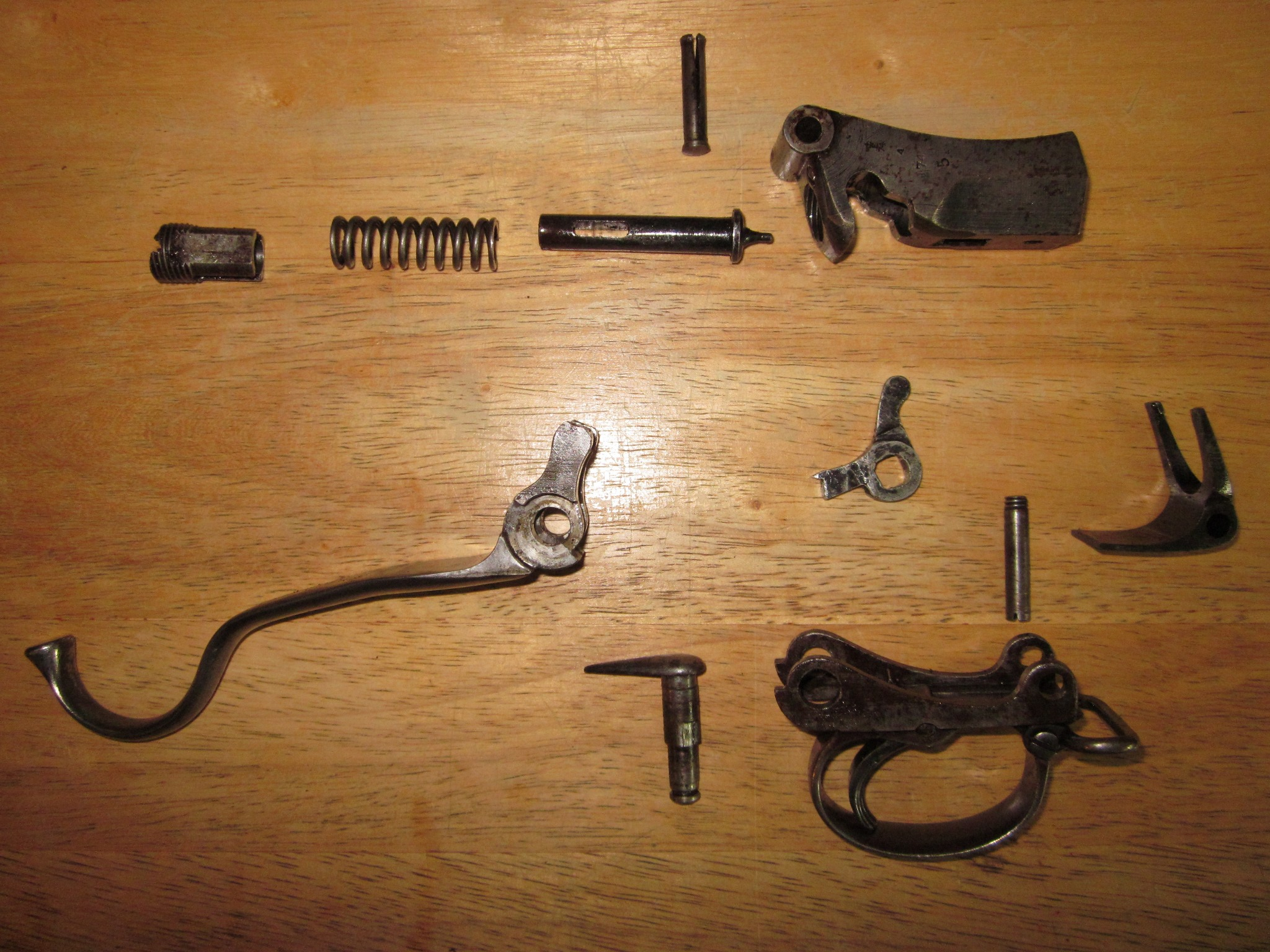 Teardown of the action body of a Martini-Henry Mark II